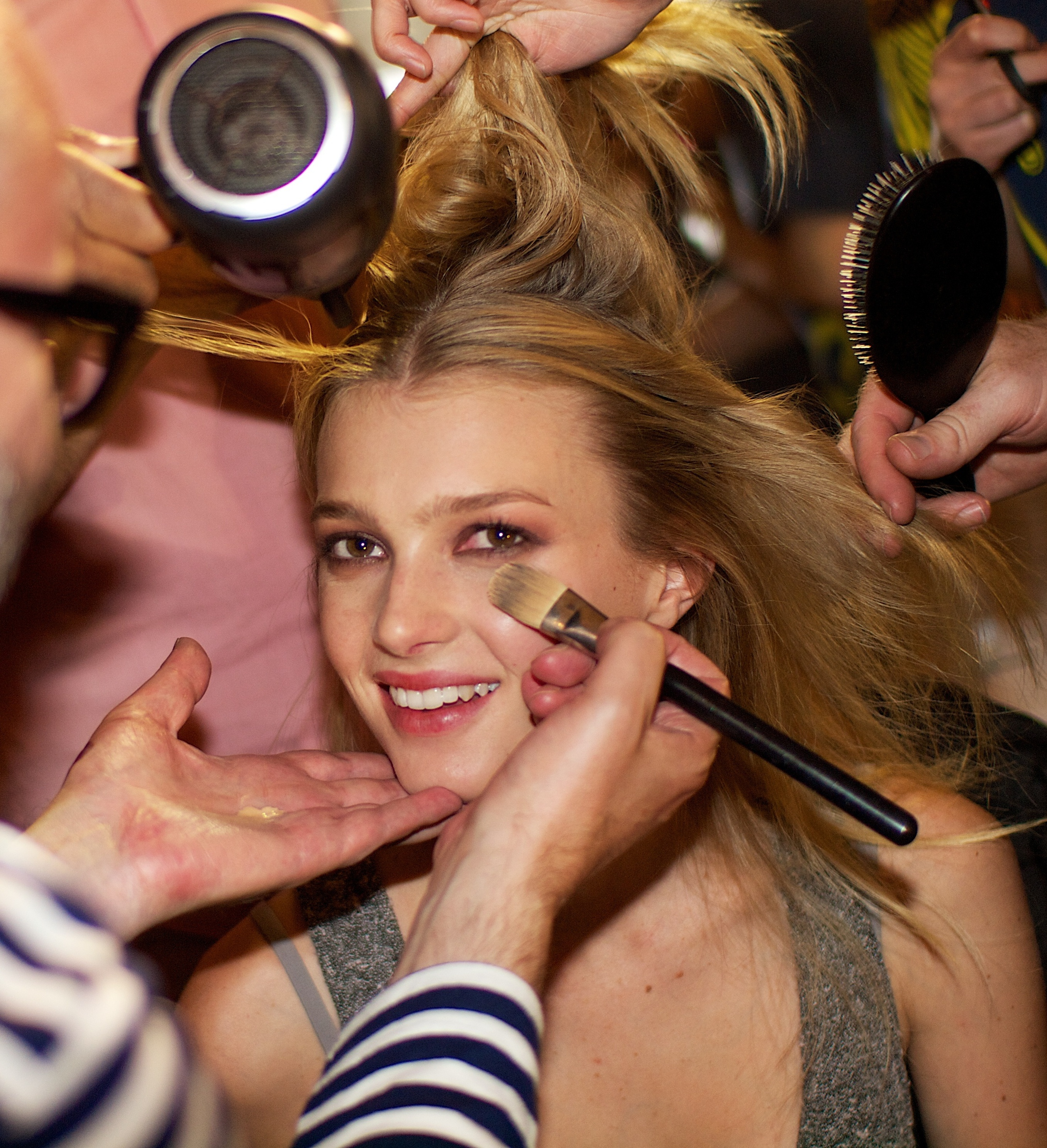 Sigrid Agren (born April 24, 1991) is a French-Swedish fashion model from Martinique/